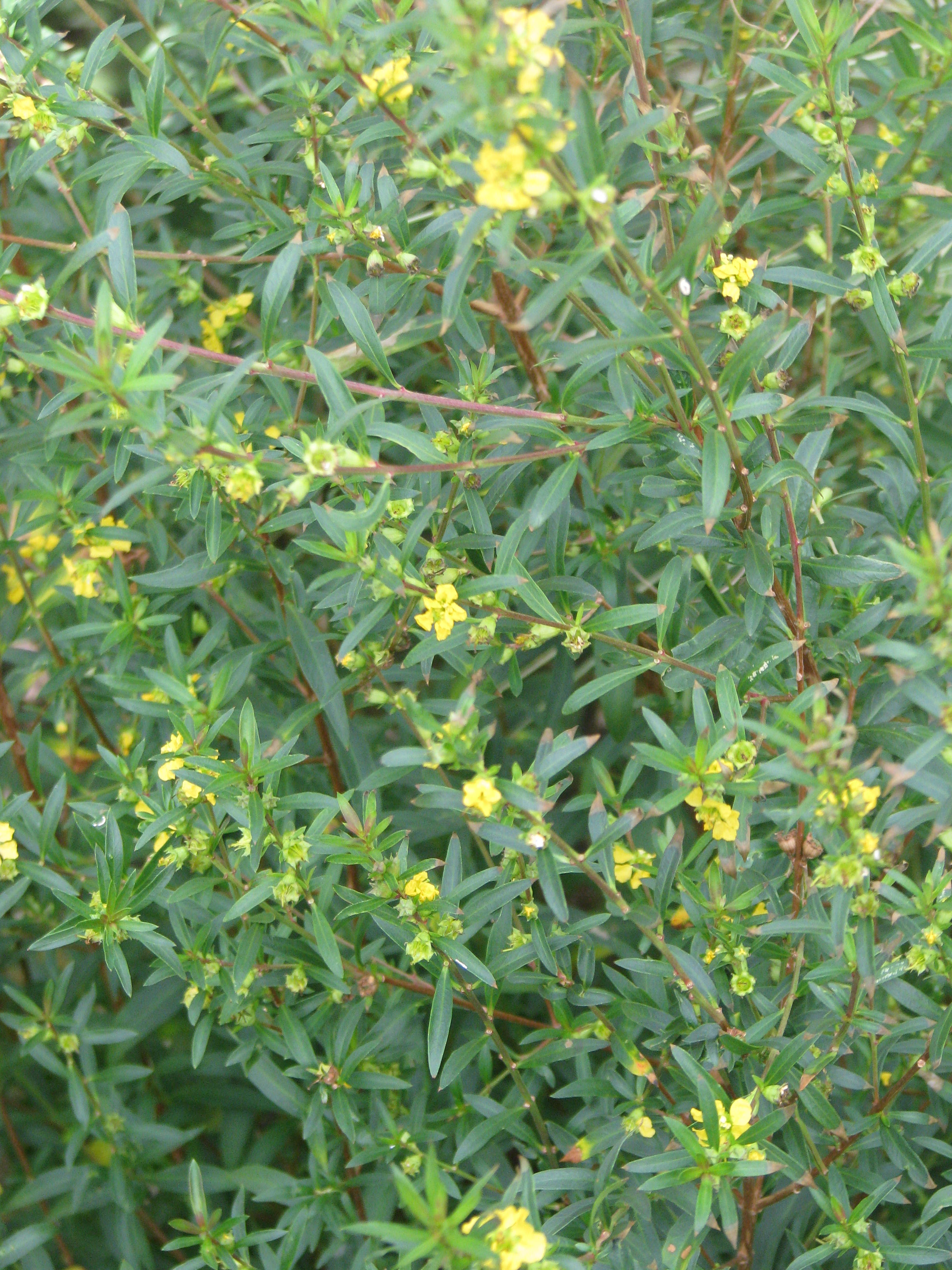 Not the most wildly exciting shrub in the world but ' The plant has psychoactive and medicinal properties, and has been used for a variety of ailments by native peoples in Central America and Mexico' according to Wiki